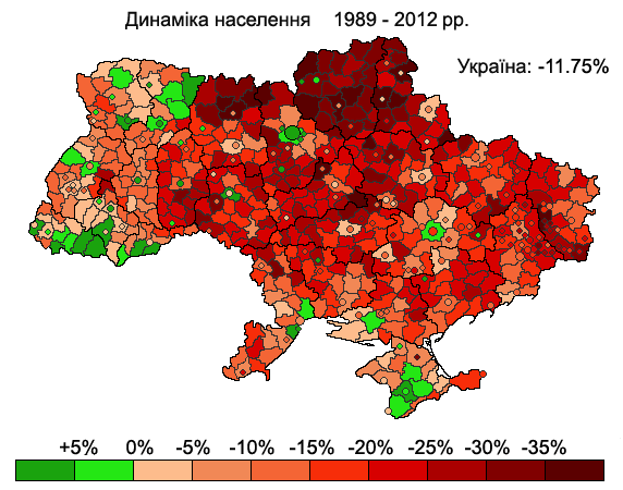 Population change in Ukraine between 1989 and 2010 by raions.